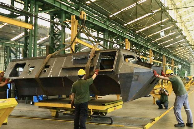 Workers study the hull of an Anoa APC.